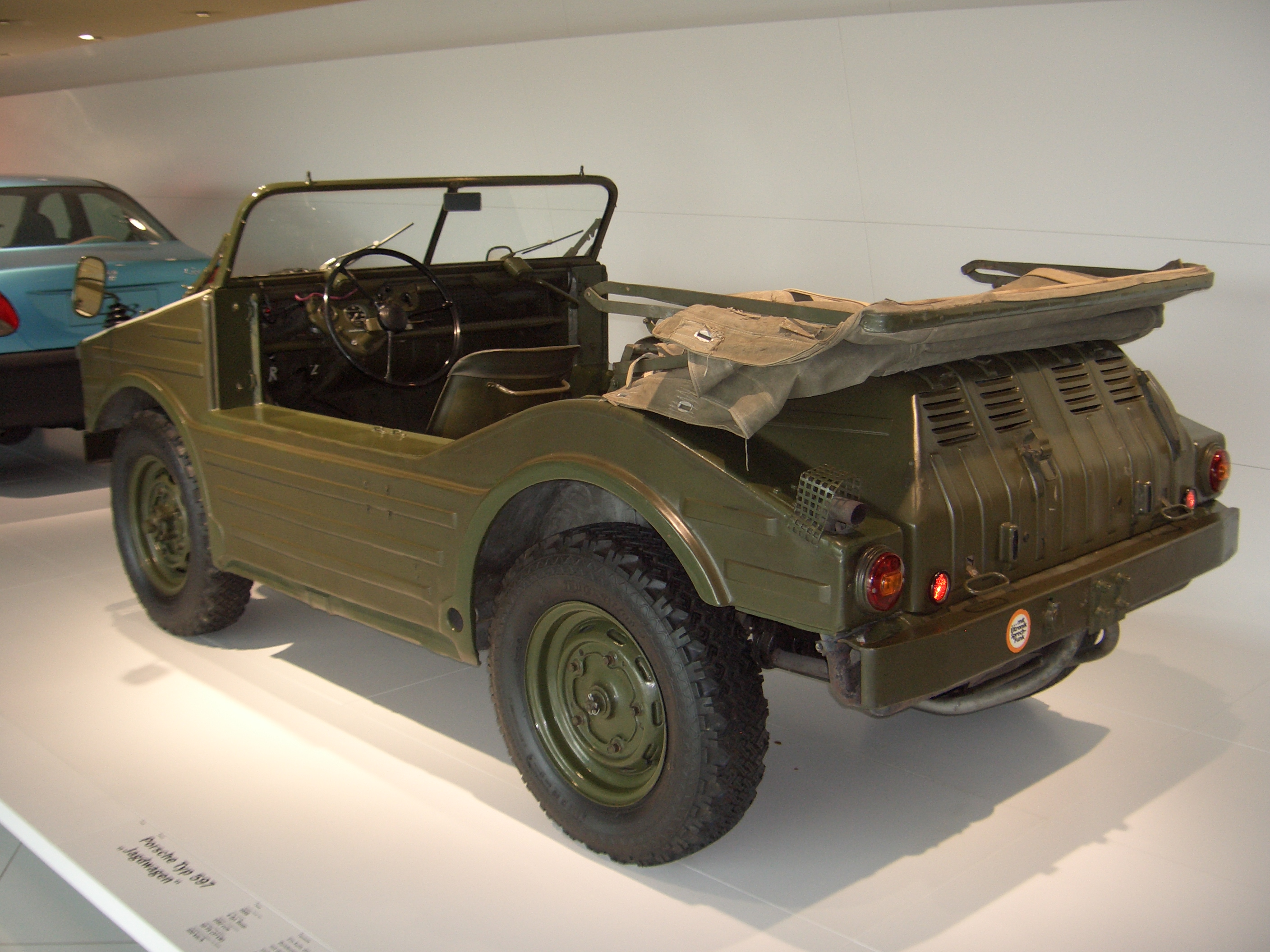 see filename for despcription - seen at Porsche Museum Native namePorsche-MuseumLocationStuttgartCoordinates48° 50′ 07″ N, 9° 09′ 06″ E Established1976 (old museum) 2009 (new museum)Web page control : Q328623 VIAF: 138511768 GND: 2087859-X SUDOC: 155641123 NKC: ko2015876799 institution QS:P195,Q328623